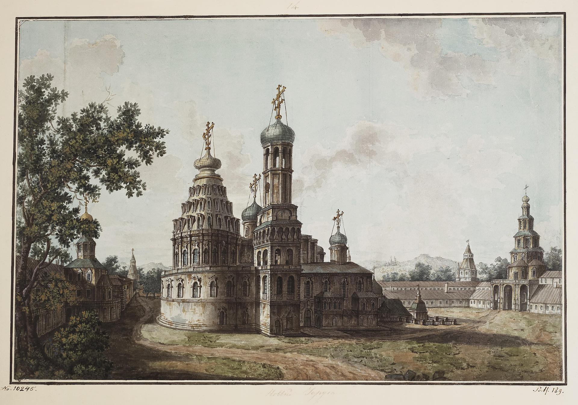 en: Fedor Alekseev Title